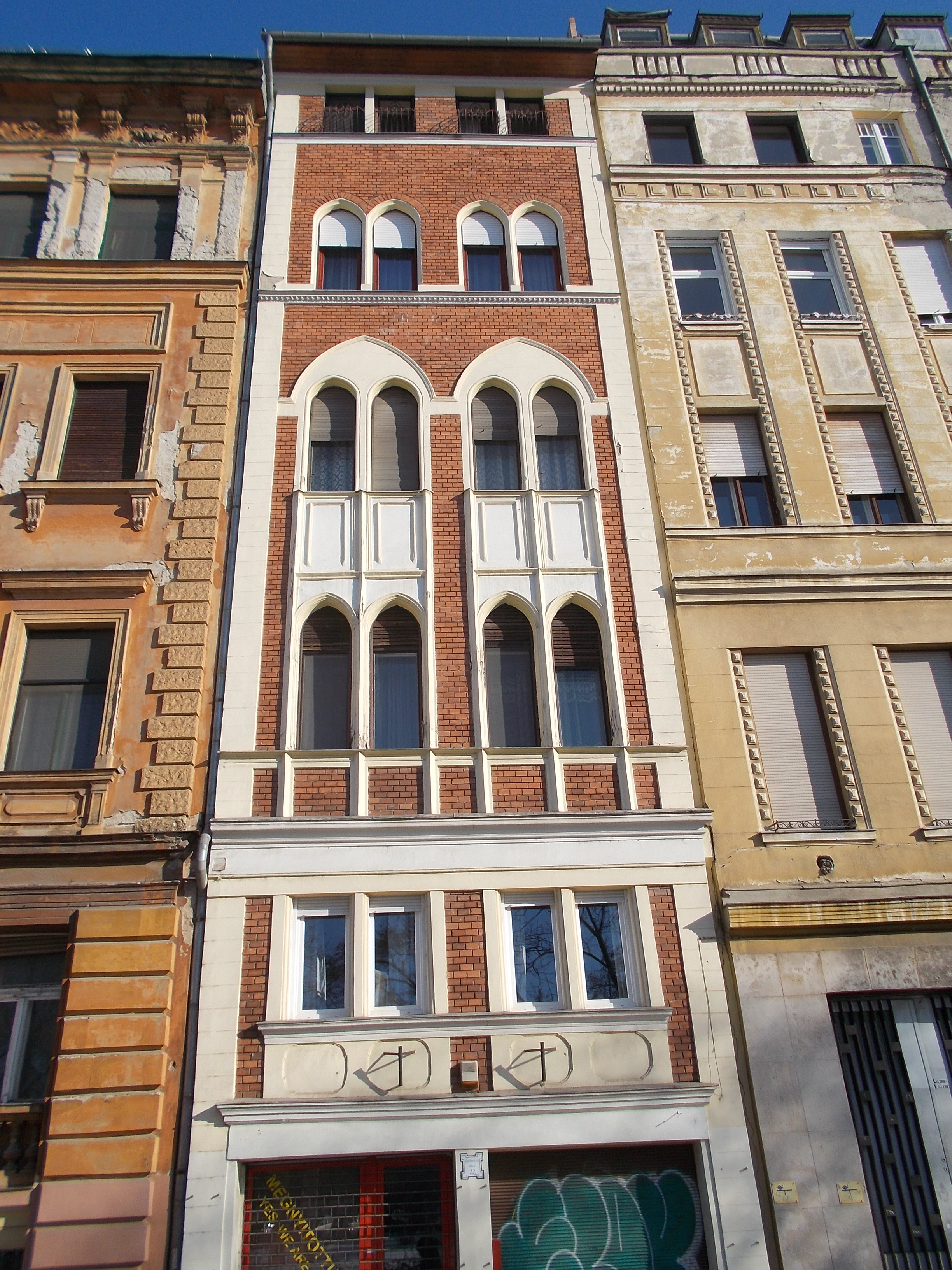 The narrowest house of Buda. Budapest District I., Hungary.